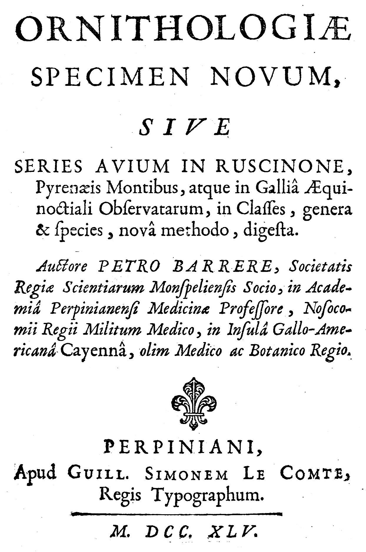 Ornithologiæ specimen novum, by Pere Barrera i Volar (1745)